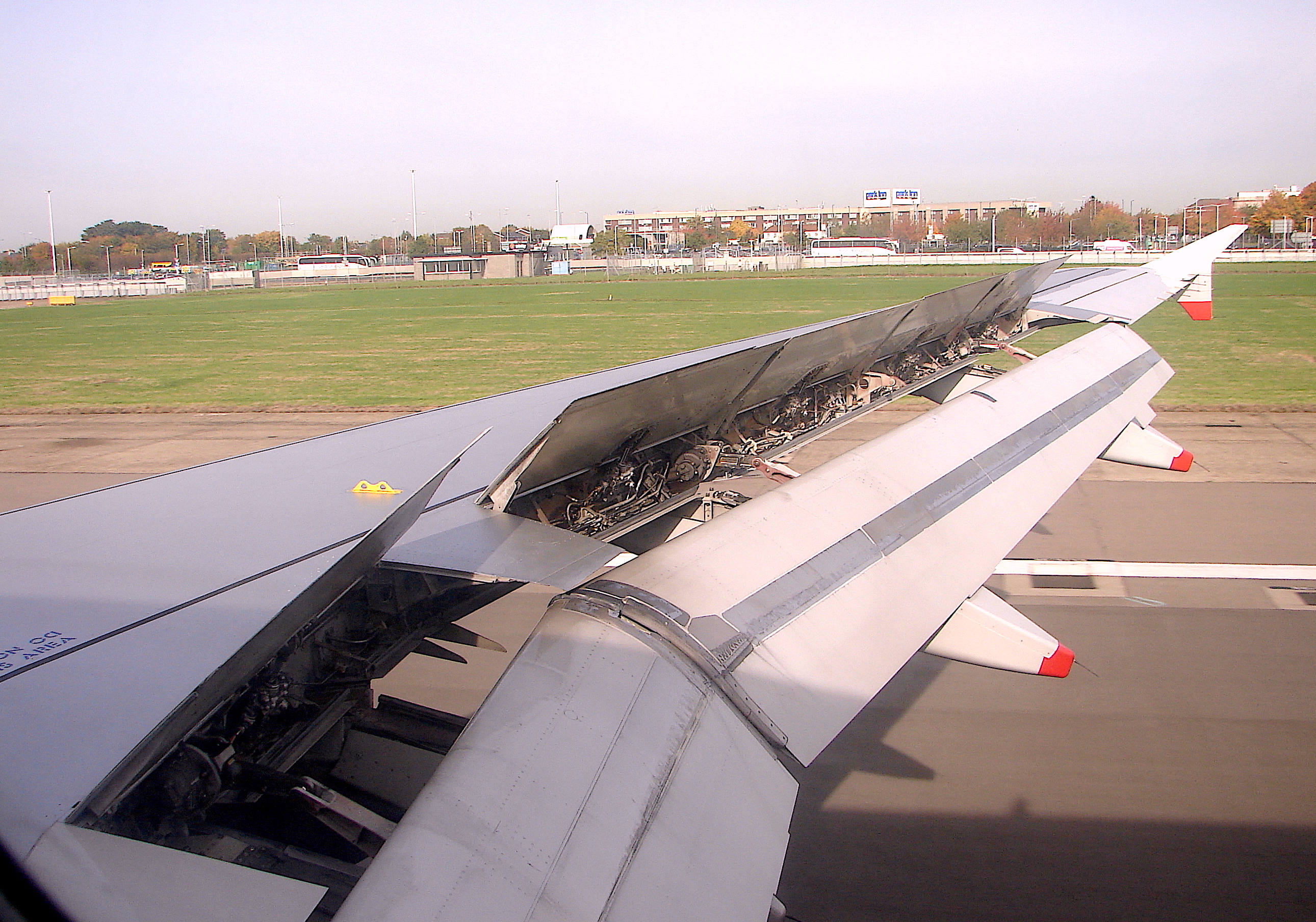 Spoiler and Fowler flaps of an A320